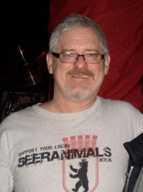 John Wright by NoMeansNo at First Floor Club, Pomigliano d'Arco (Naples), Italy - November 29th, 2012